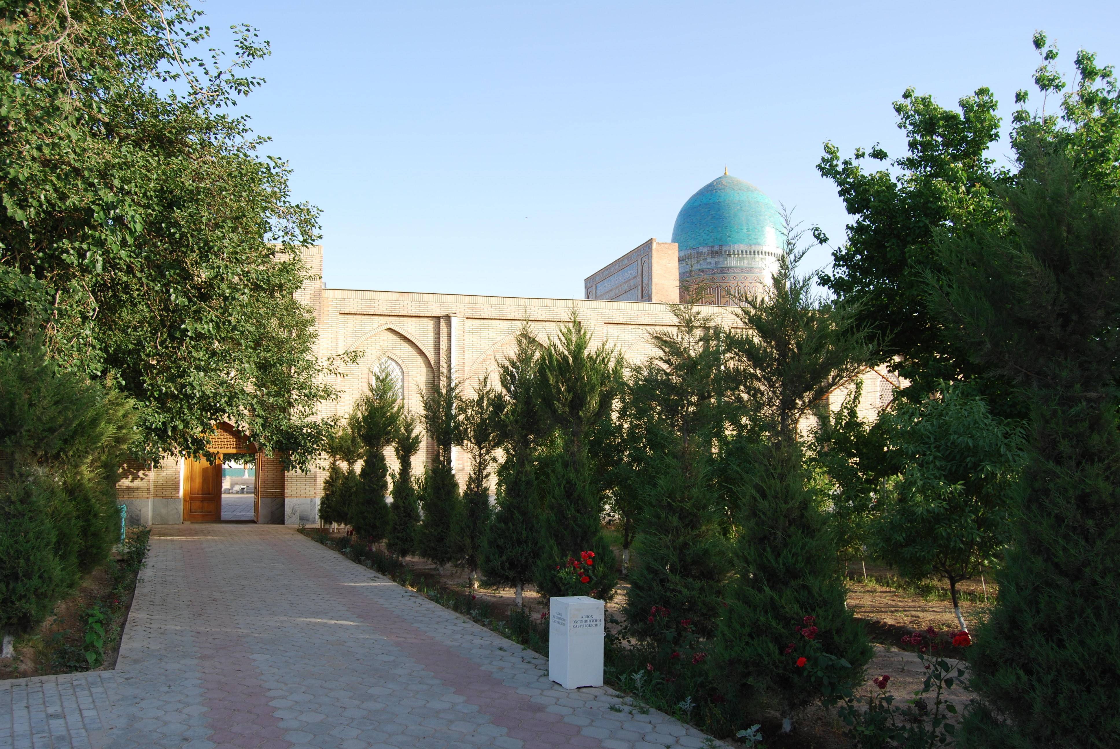 Qarshi